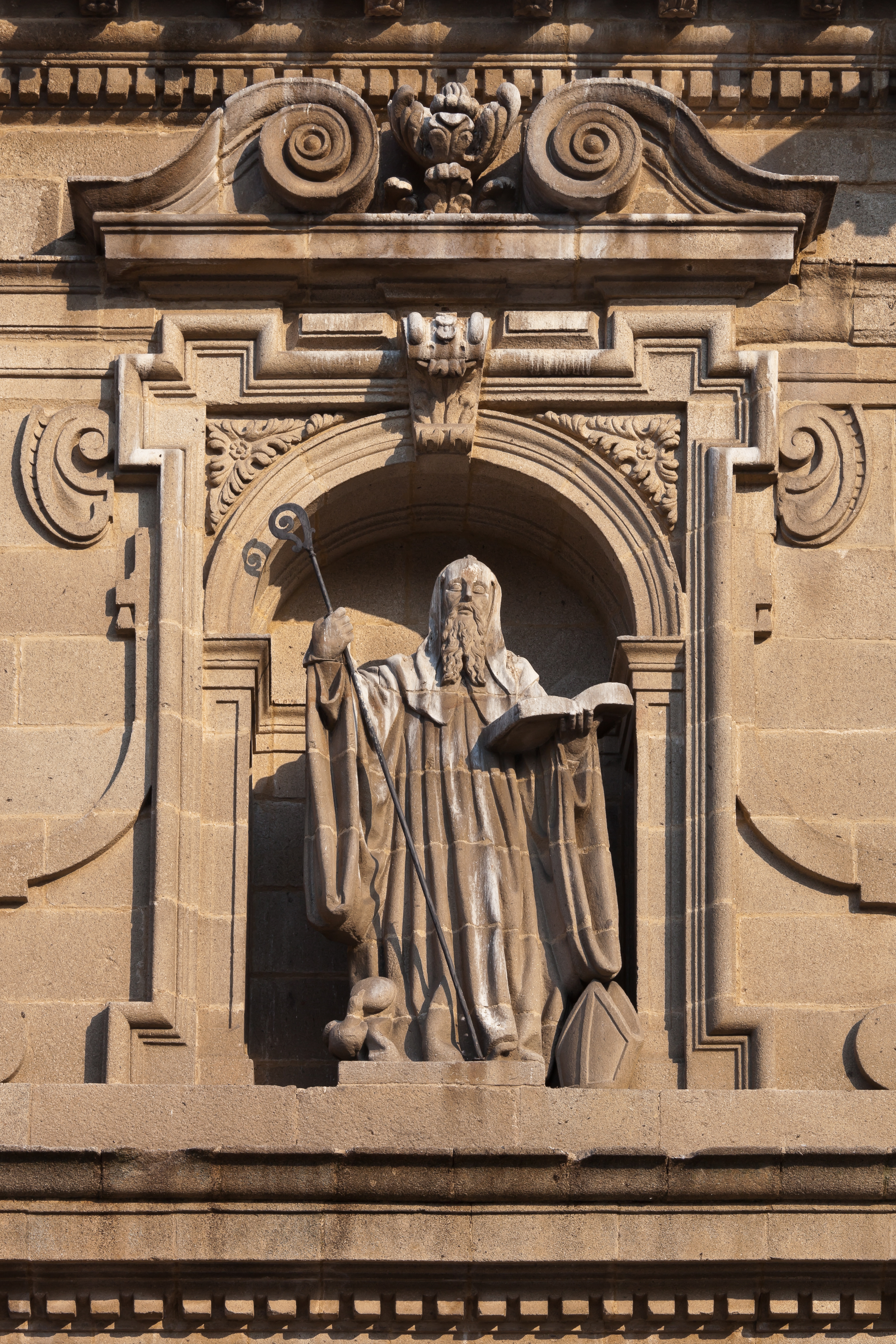 Saint Rudesind, Saint Salvator Monastery, Celanova, Galicia (Spain)